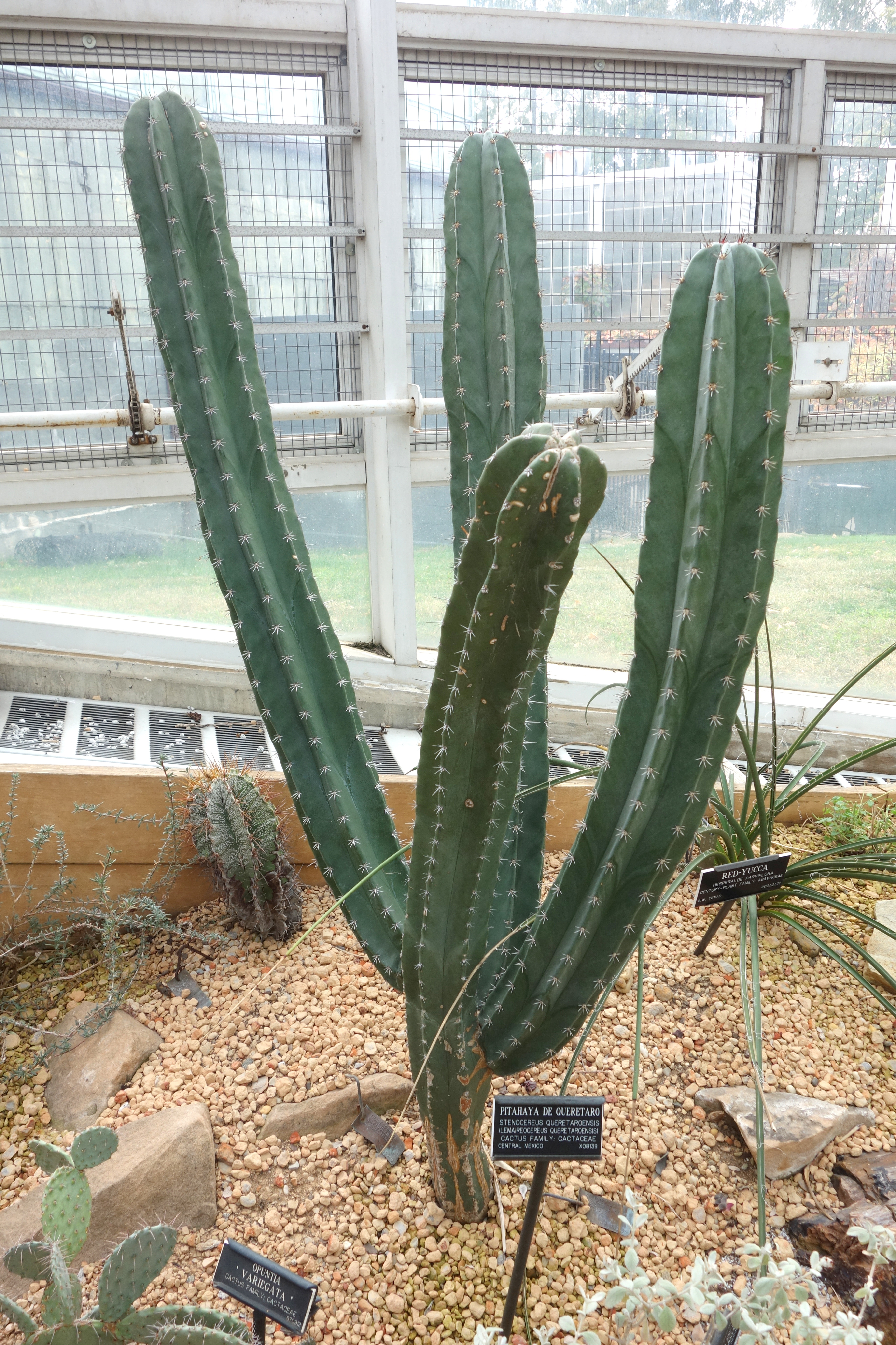 Botanical specimen in the Brooklyn Botanic Garden, Brooklyn, New York, USA.